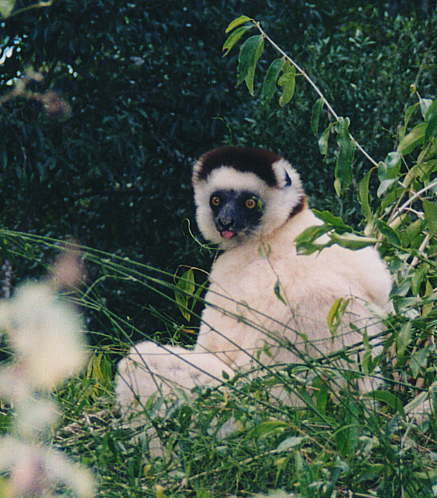 Propithecus verreauxi verreauxi ("sifaka" lemur), Berenty reserve, Madagascar